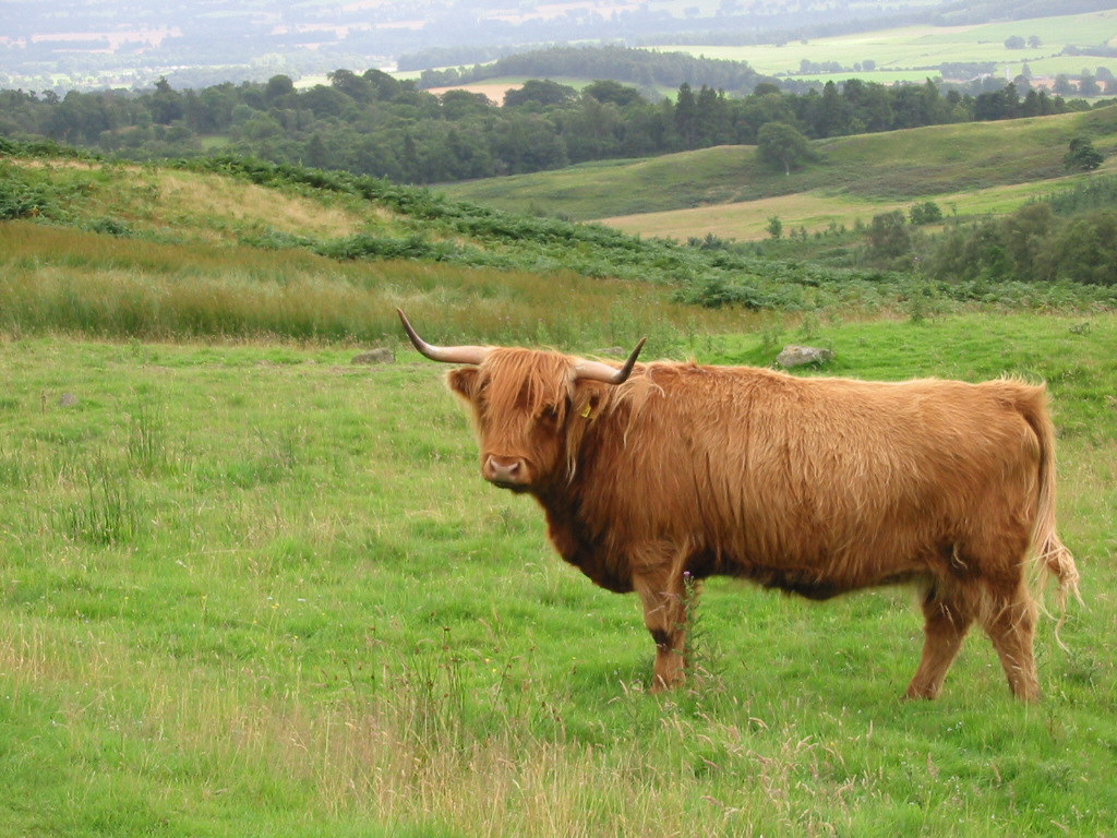 A cow from Scotland, Highland cattle.